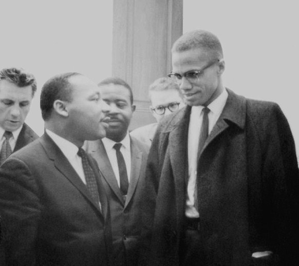 This image is a derivitive work Martin Luther King and Malcolm X waiting for press conference.